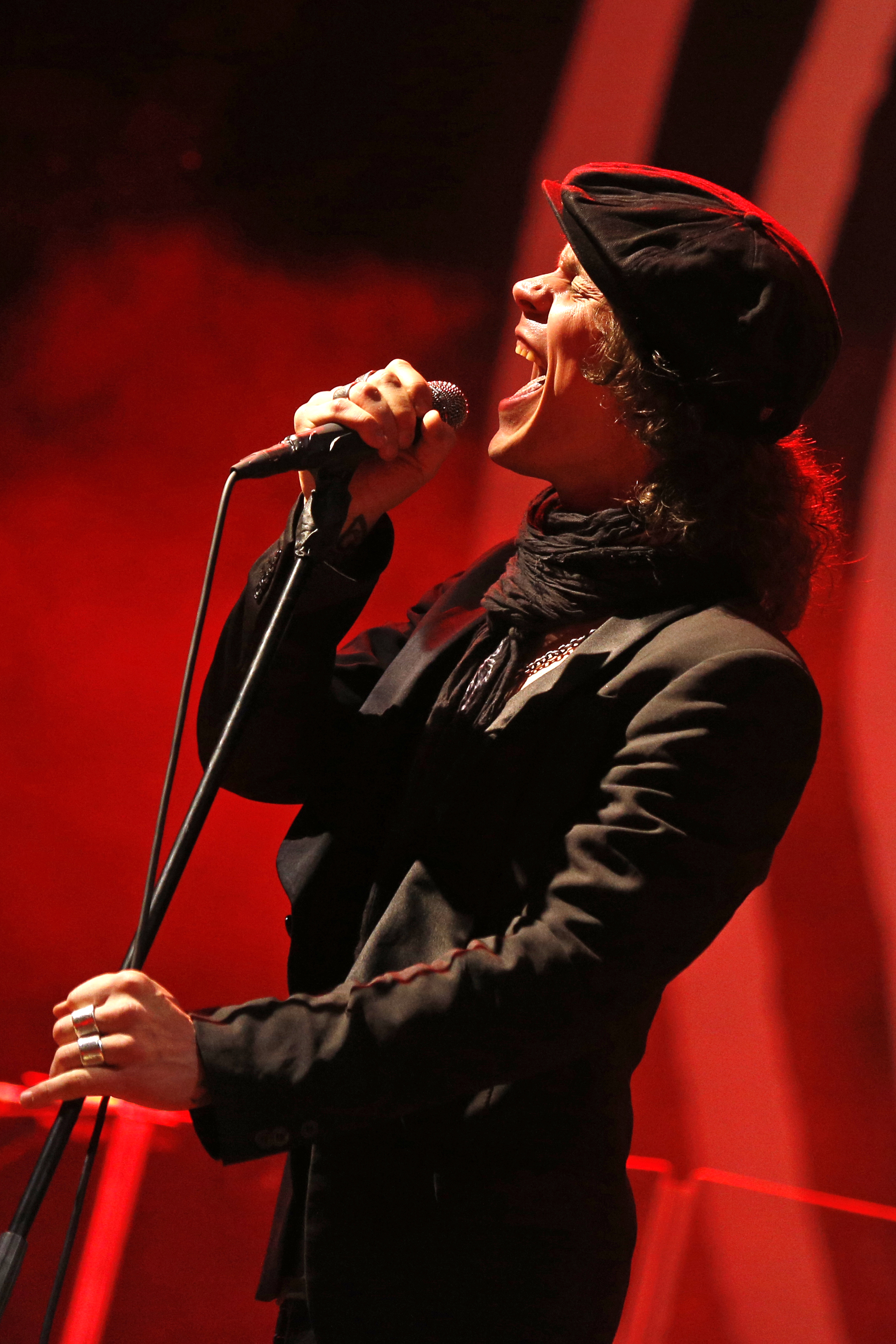 Ville Valo, singer and guitarist of Finnish band HIM performing on "blue"-stage during Nova Rock-Festival 2013.